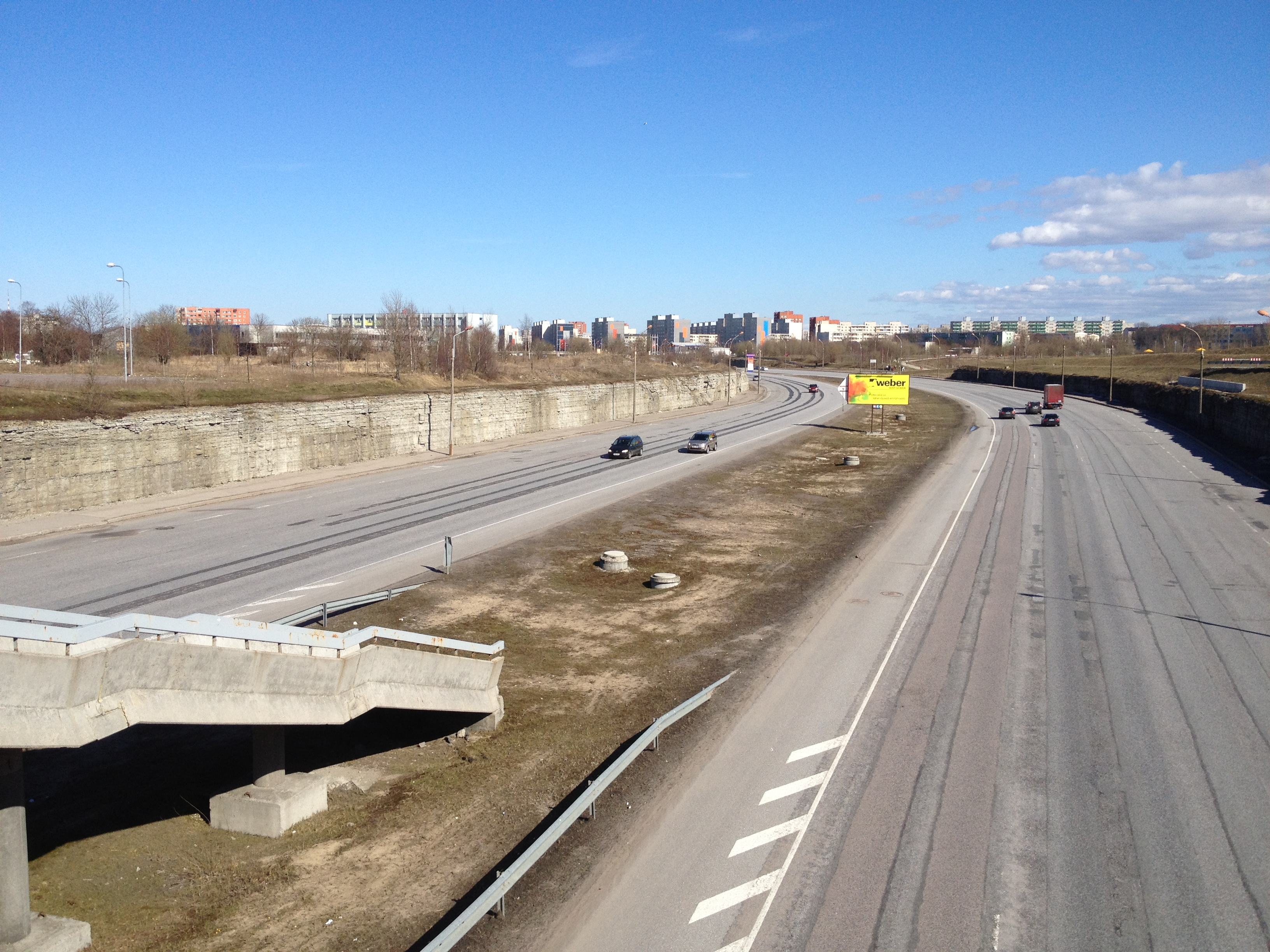 The road to Lasnamäe